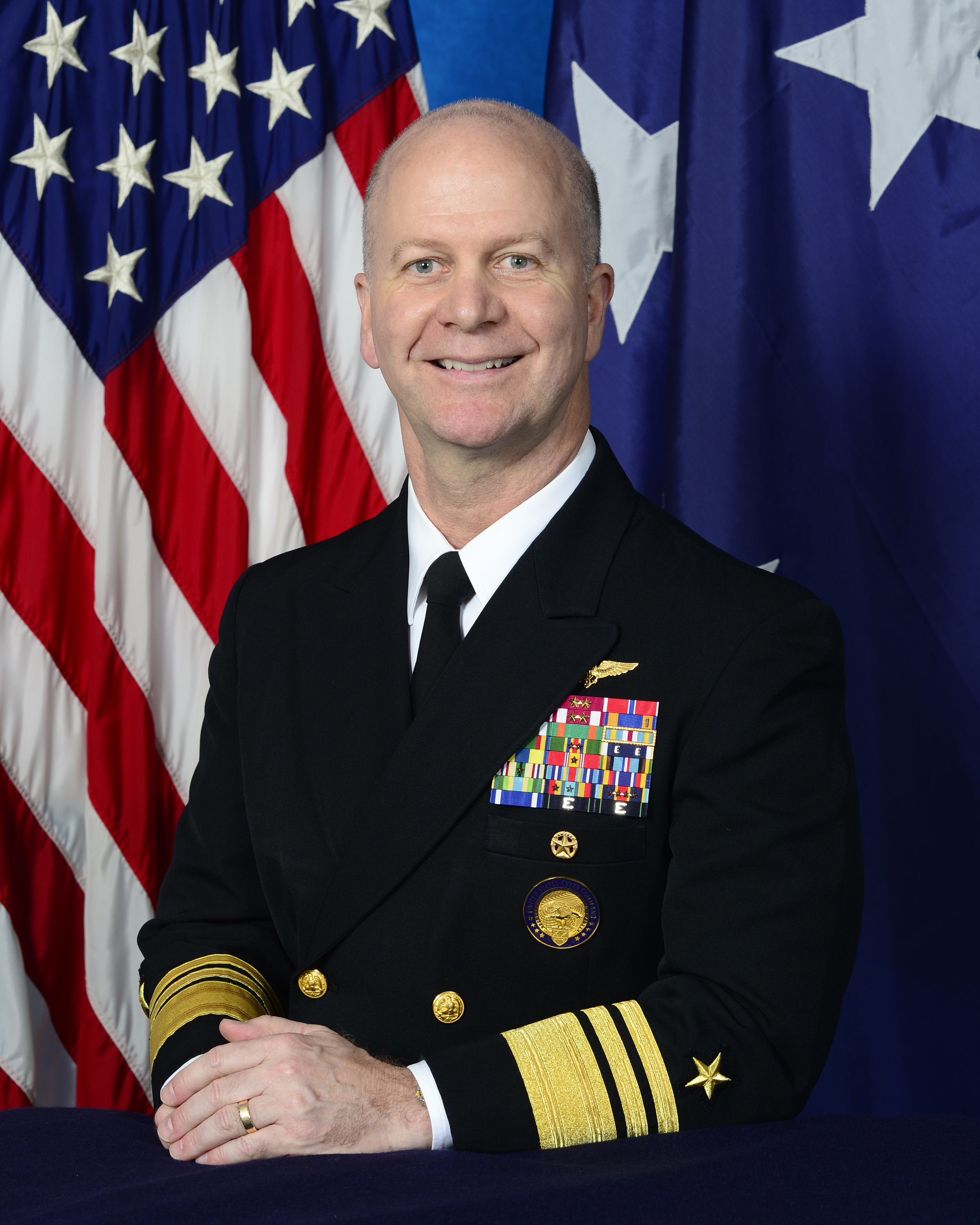 Vice Adm. Ross A. Myers